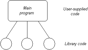 Traditional libraries